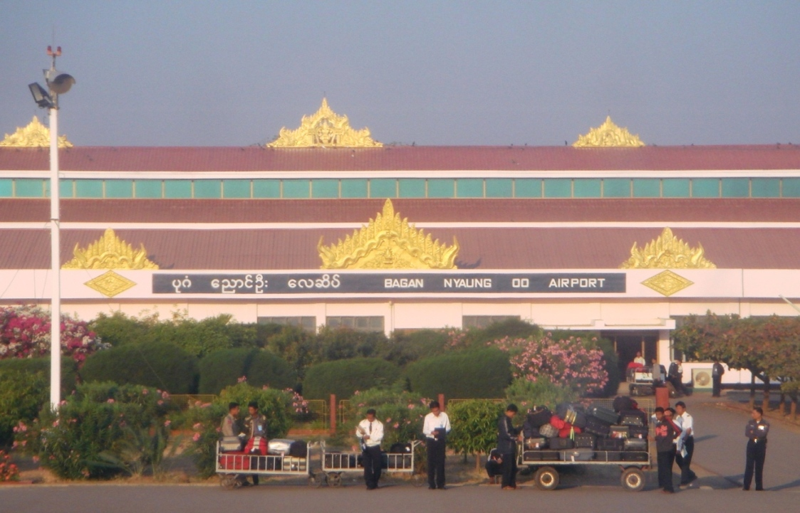 Bagan, Mandalay Division, Myanmar: Nyaung U Airport.